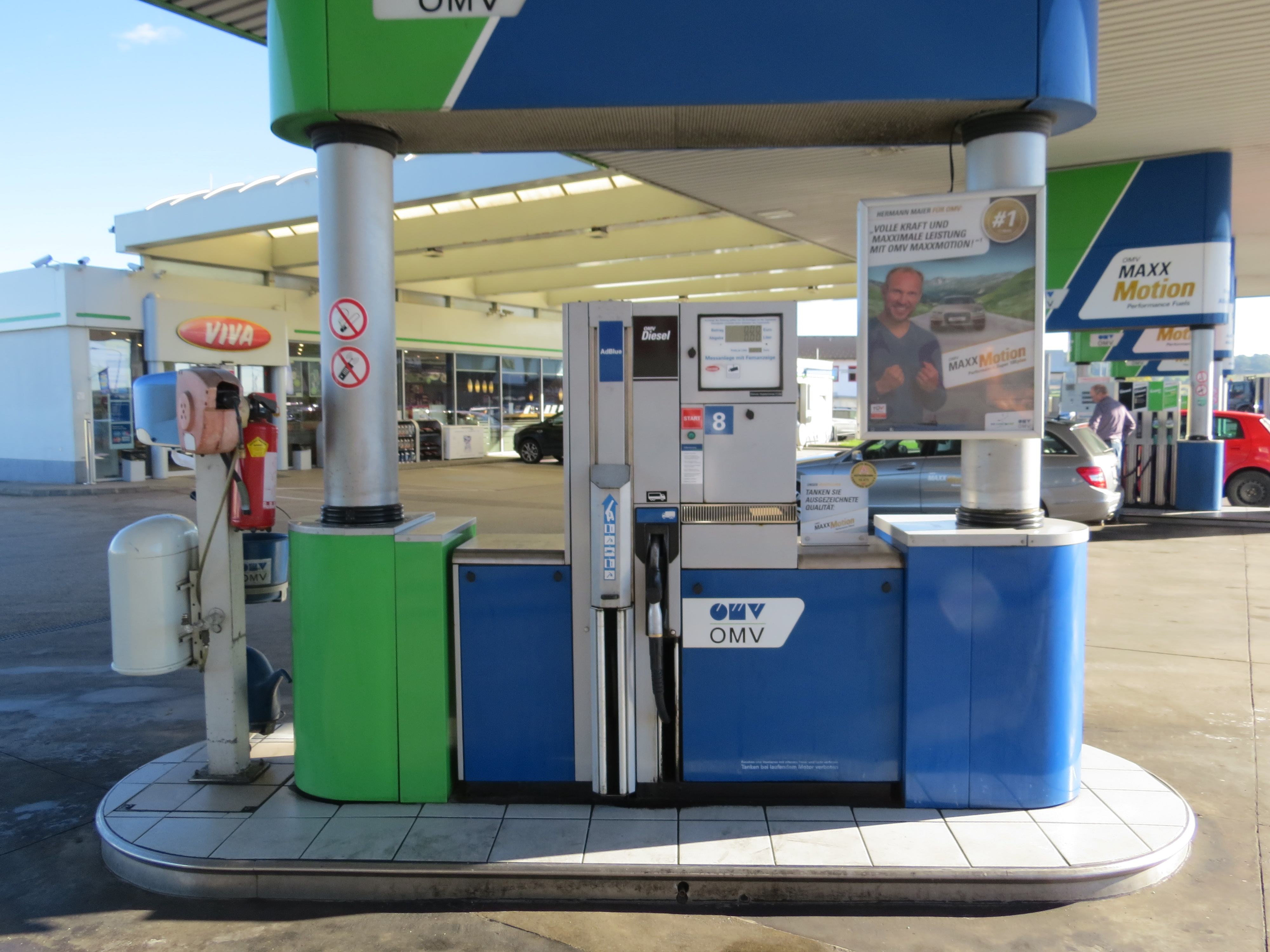 OMV petrol station in Loosdorf